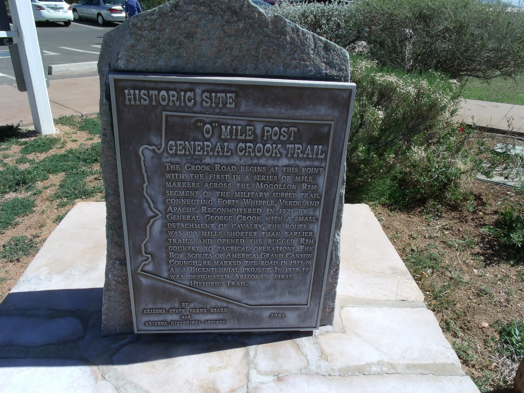 This "0" Mile General Crook Trail Marker is located in the place where in 1871 General George Crook established a military supply trail which connected Forts Whipple, Verde and Apache. The marker is located close to the Fort Verde Administration Building. of Fort Verde at 125 E. Hollamon St. in Camp Verde, Arizona. The marker and its contents are the work of an employee of the Bureau of Land Management. It is located in an area which is listed in the National Register of Historic Places, reference #71000120. The plaque and its contents are the work of an employee of the Bureau of Land Management.